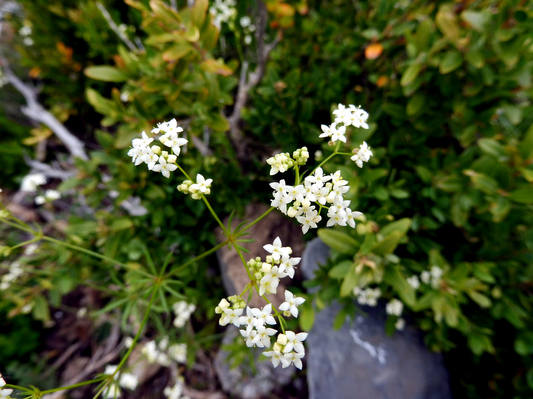 Galium lucidum. In serrat de Sòbol (Solsonès -Catalunya). To 1.260 m altitude This is a a photo of a natural area in Catalonia, Spain, with id: ES510197